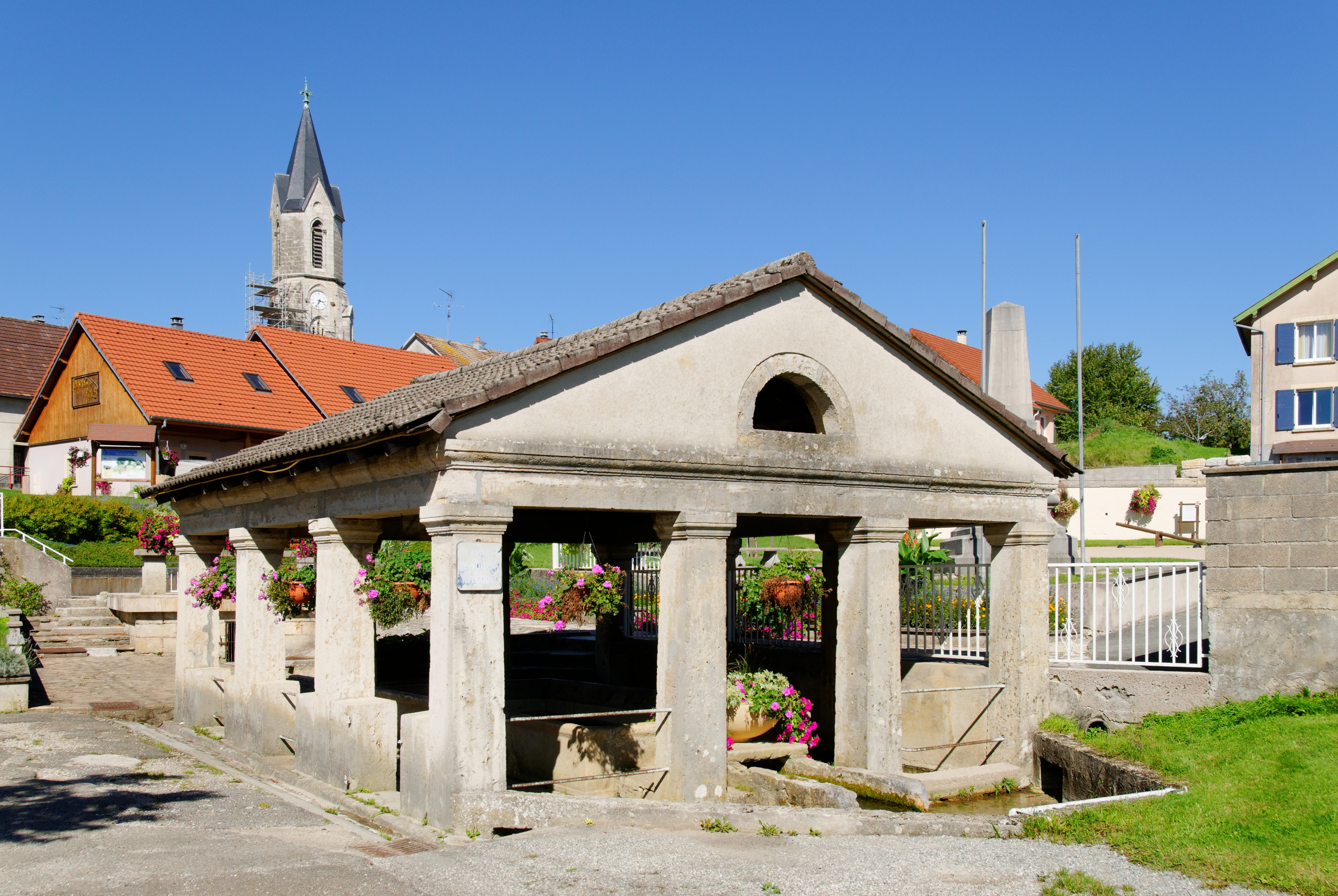 This photograph was taken with a Nikon D300 Lavoir de Fêche-l'Église (monument inscrit MH n° PA00101147).